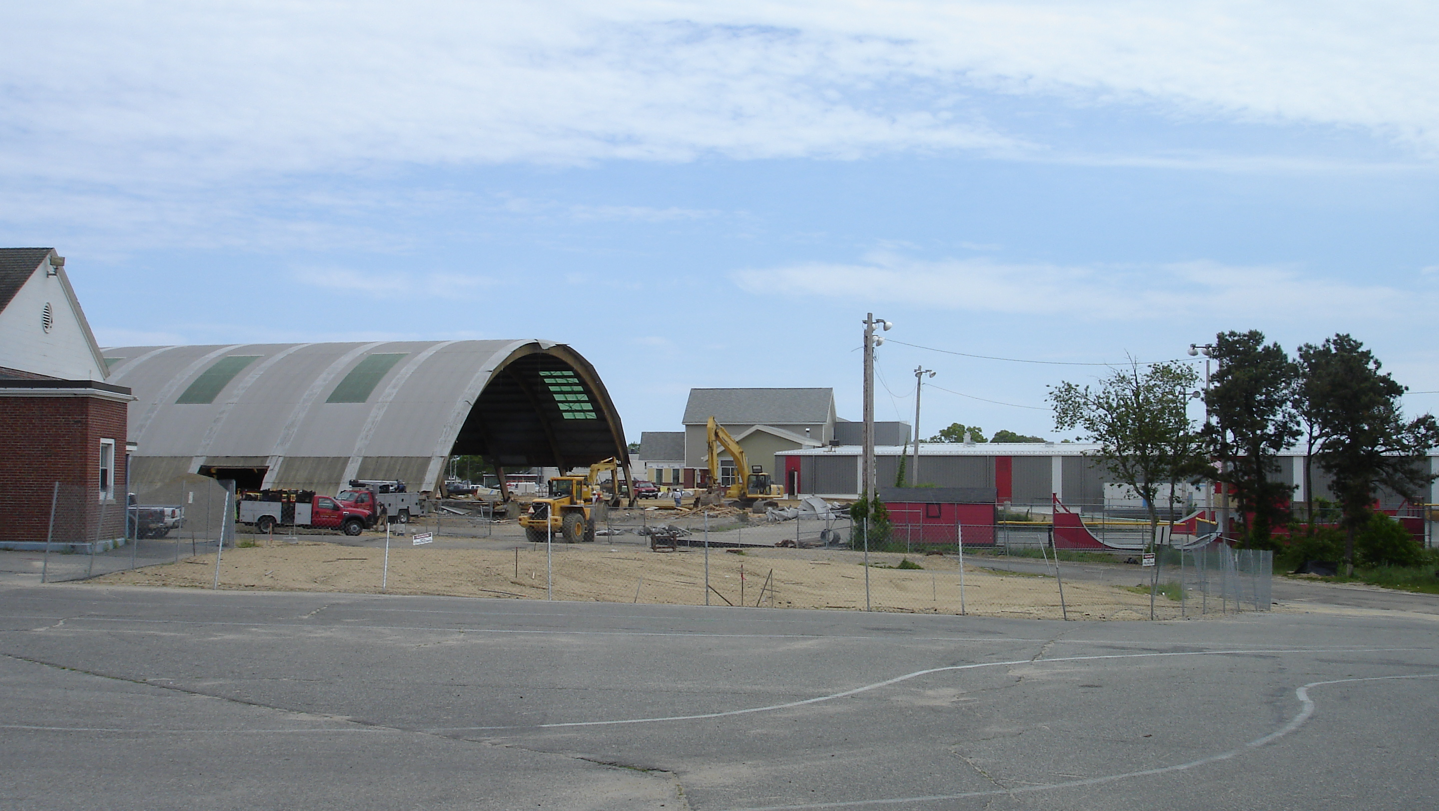 Demolition of the Lt. Joseph P. Kennedy Jr. Memorial Skating Rink as viewed from the nearby Hyannis East Elementary School. The Hyannis Youth and Community Center is in the background.